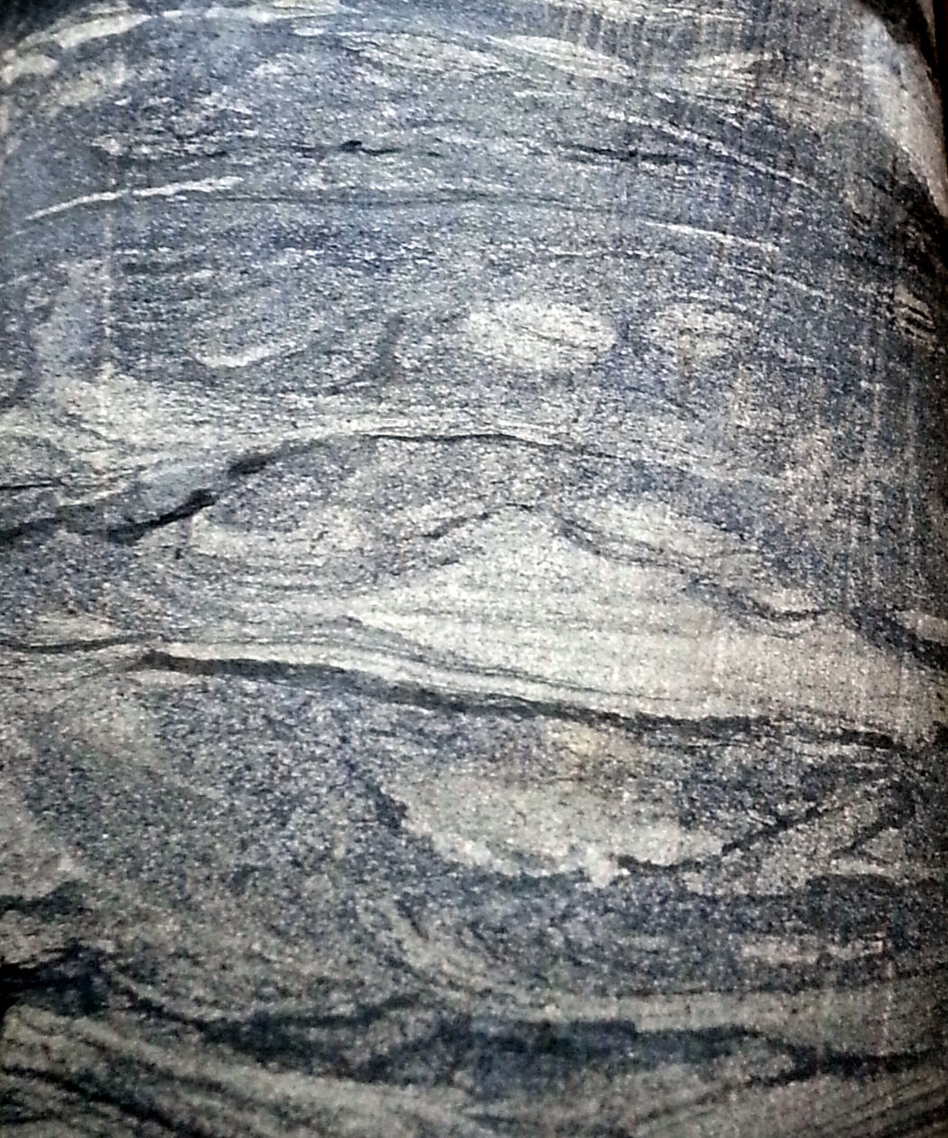 Crossbedded sandstone of the Viking Formation in central Alberta, as seen in core.